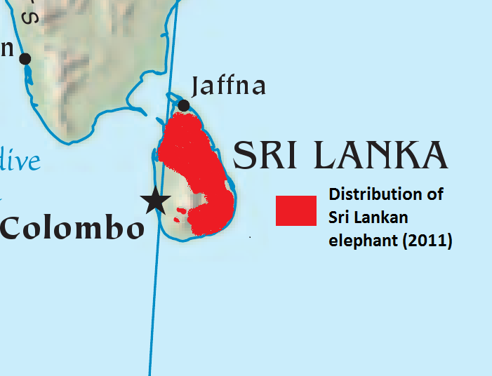 Distribution of Sri Lankan elephant based on map in (2011)